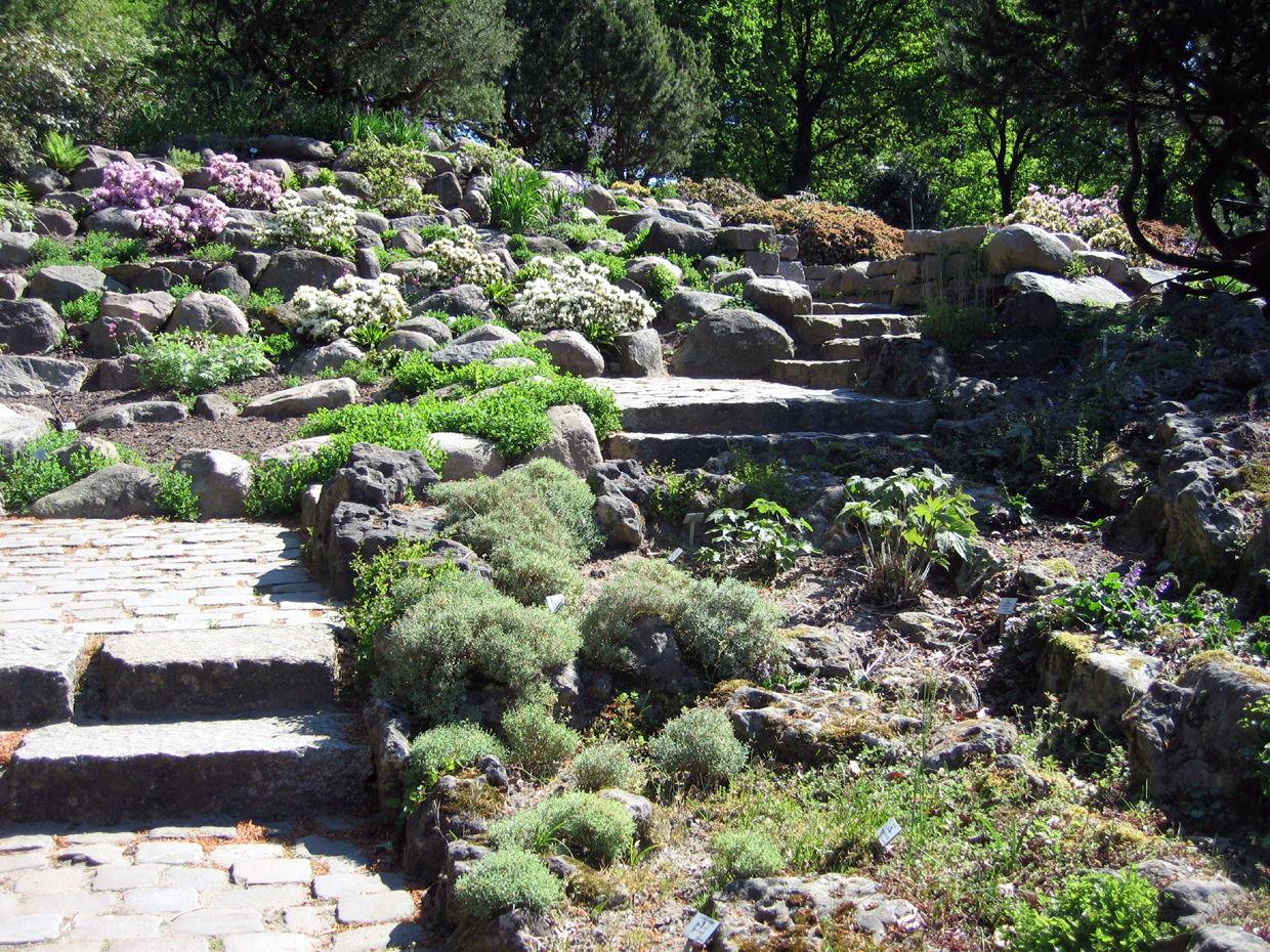 “Rhododendronpark”, the rhododendron park in Bremen (Germany).